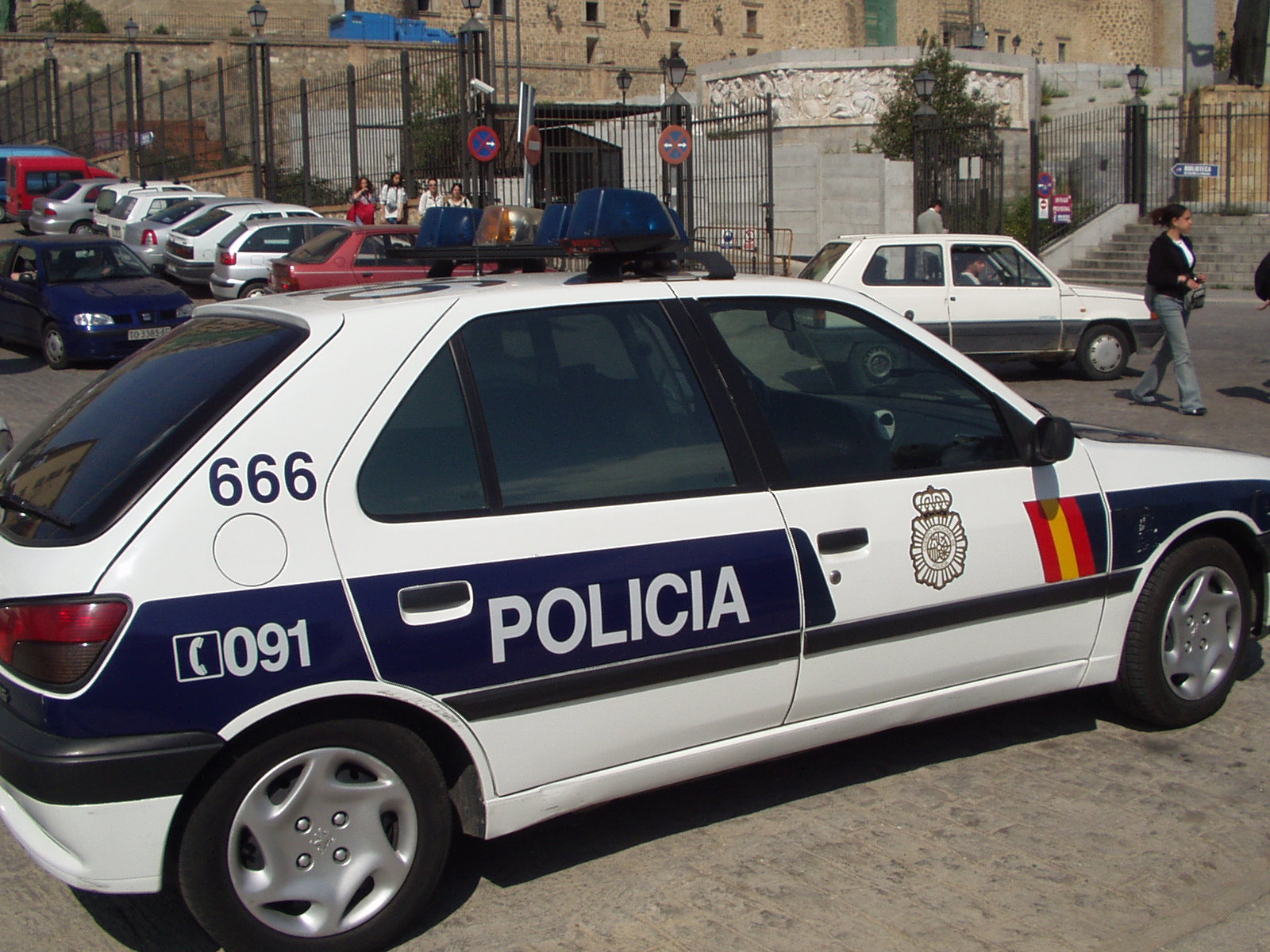 Spanish Police car.